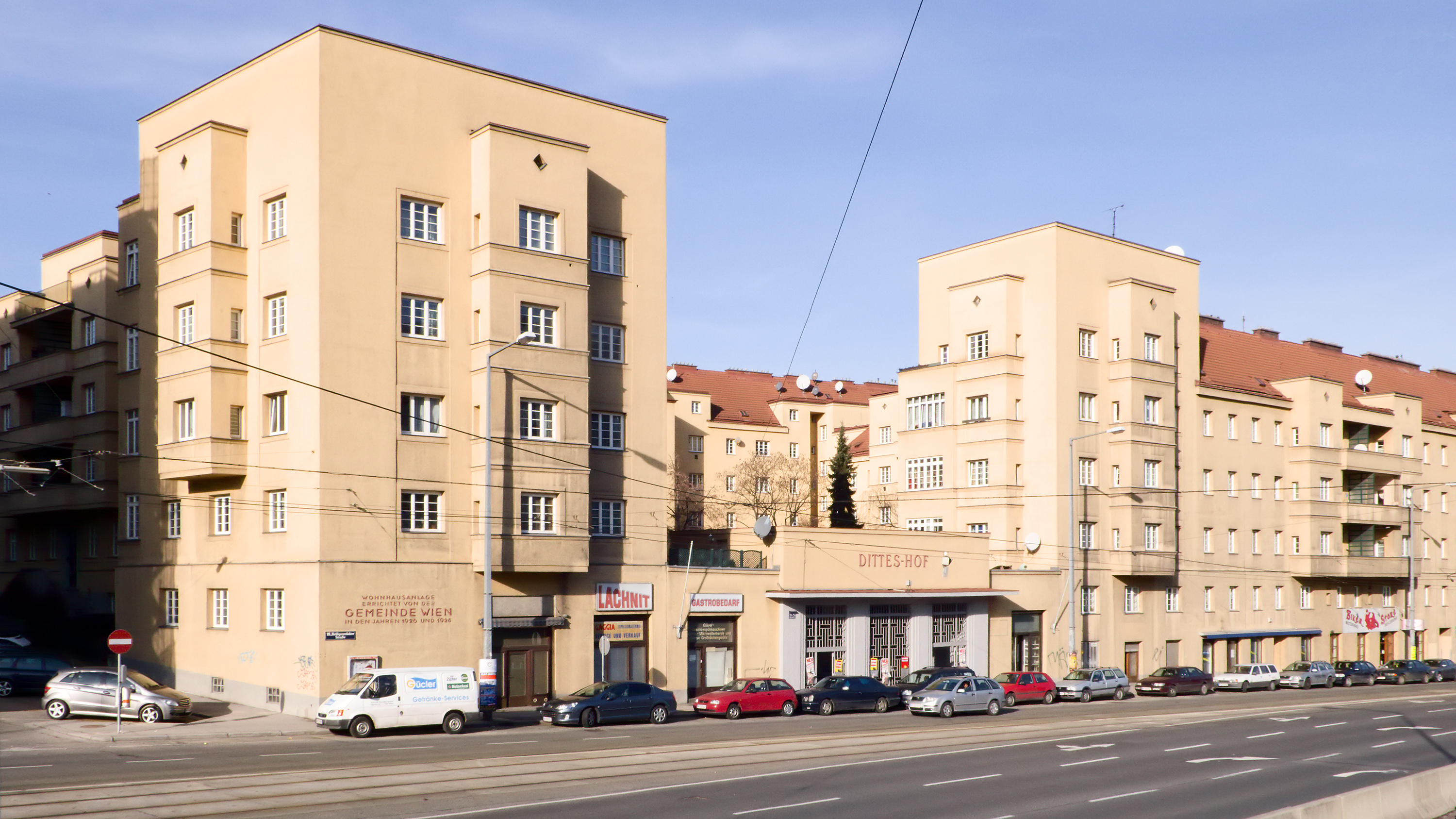 Ditteshof in Vienna Döbling